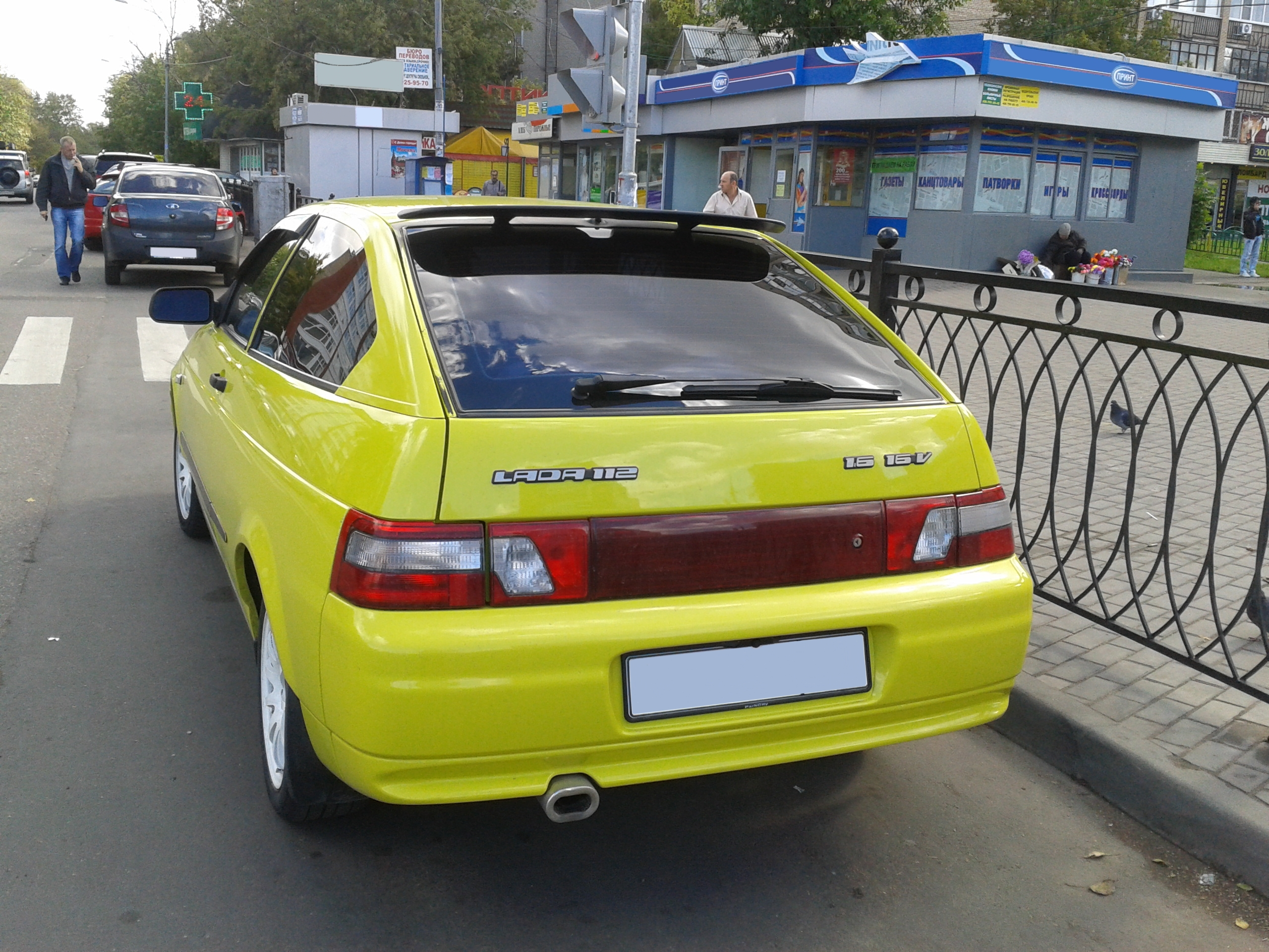 Lada 112 Coupe